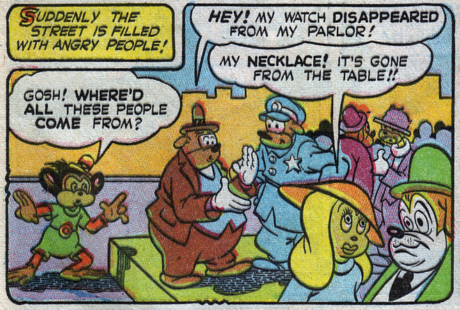 Panel 3 from Punch and Judy Comics Volume 1, #1, Page 45 (1944)